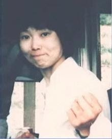 ايكوتشي ايا